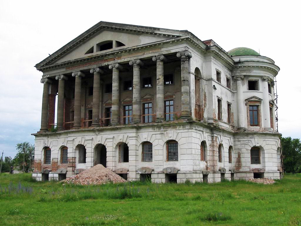 The neo-Palladian palace, designed by Andrey Kvasov and rebuilt by Charles Cameron, stands in ruins today. in Baturyn, Ukraine.